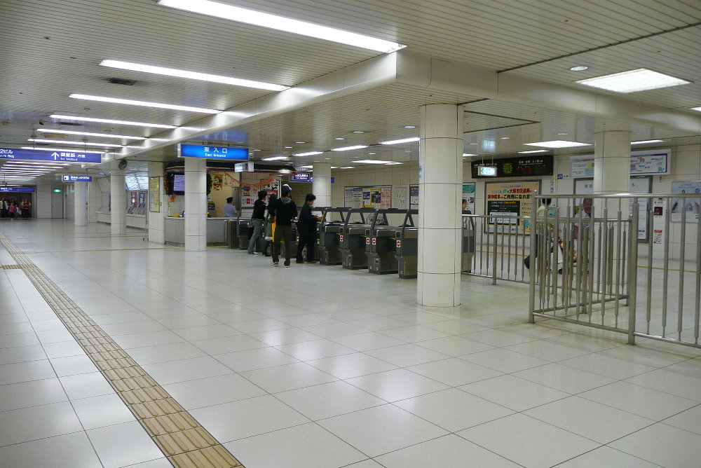 Kitashinchi Station east gate,West Japan Railway.